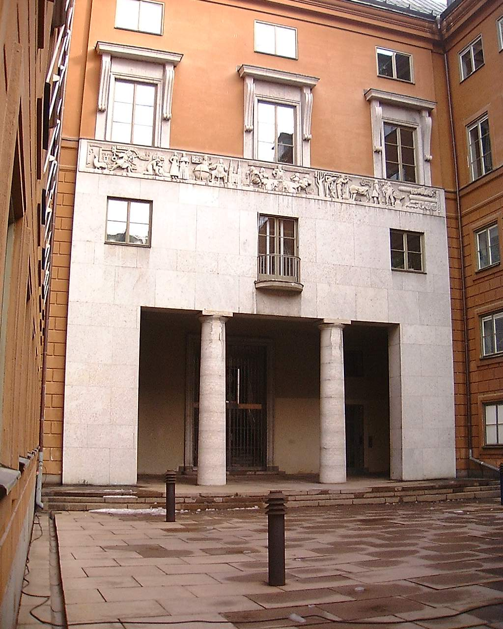 Western portico of the Parliament Building (Kanslihuset) facing Rådshusgränd, Gamla stan, Stockholm.